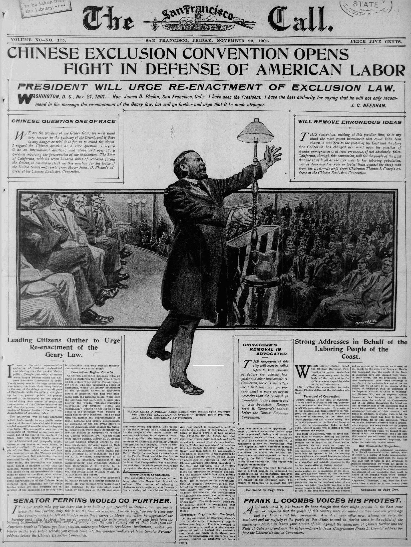 Front page of The San Francisco Call -November 20th 1911, Chinese Exclusion Convention